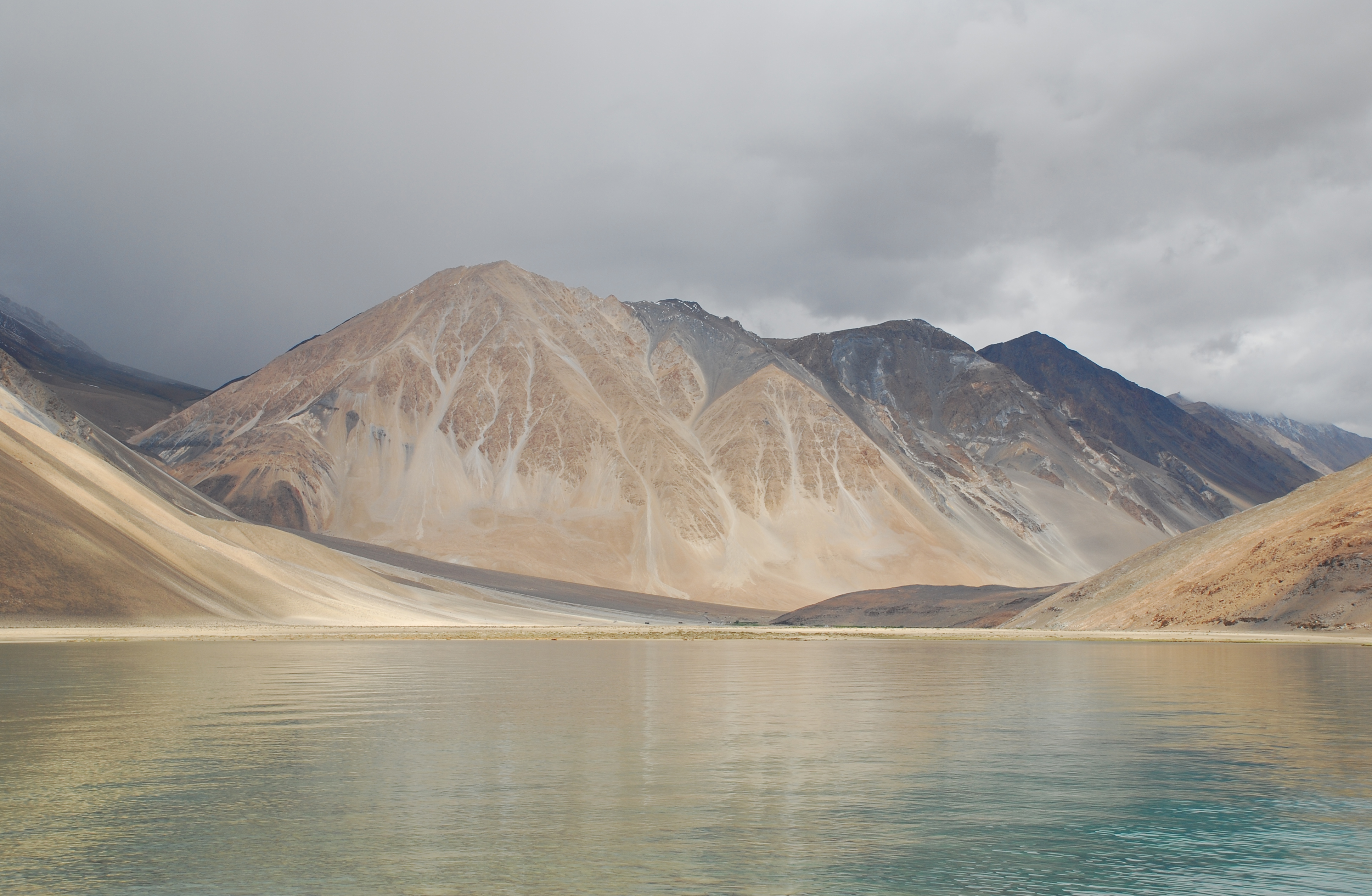 The Pangong Lake in Ladakh, India